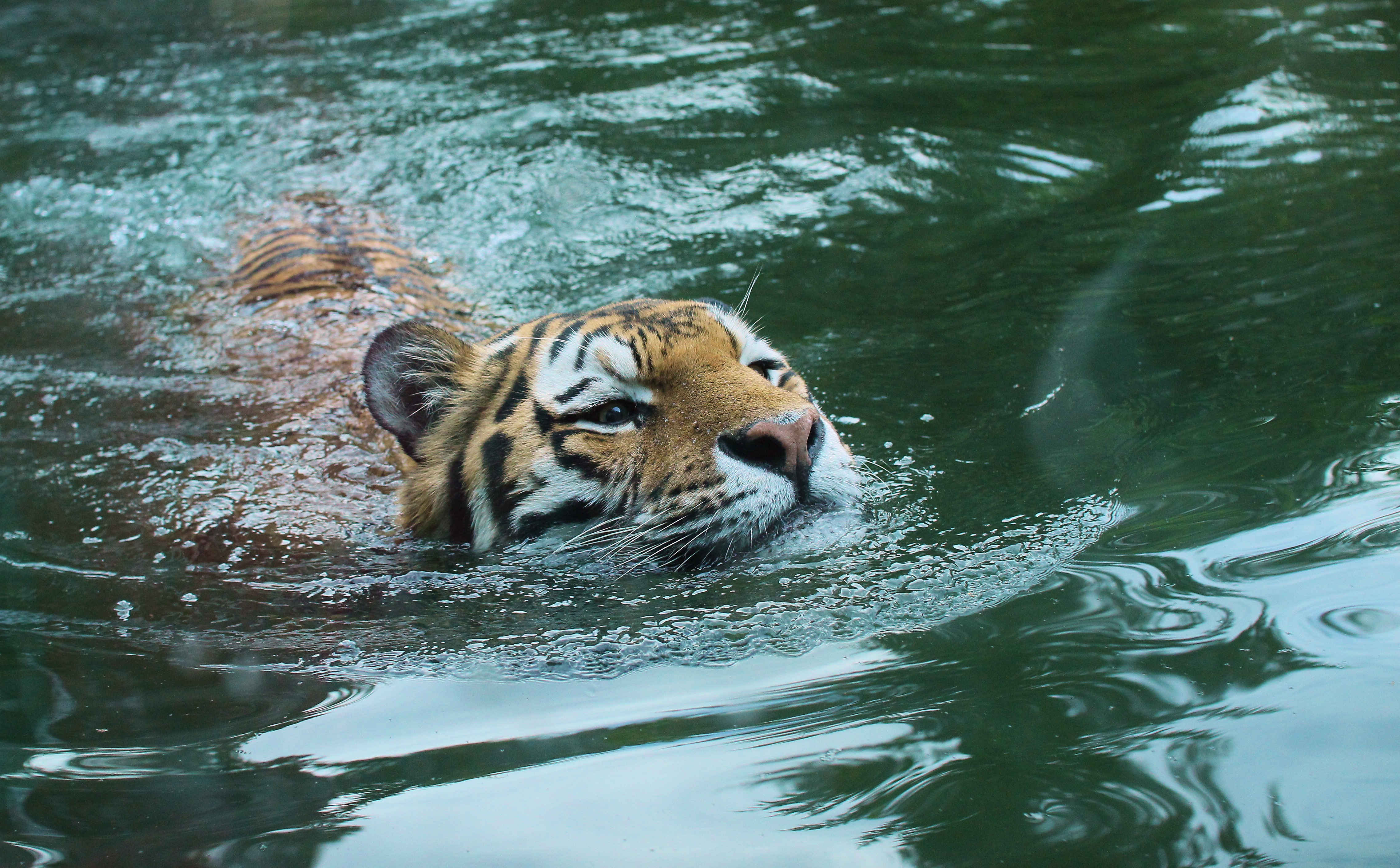 Swimming Panthera tigris altaica (called Tomak) in the Leipzig Zoo.